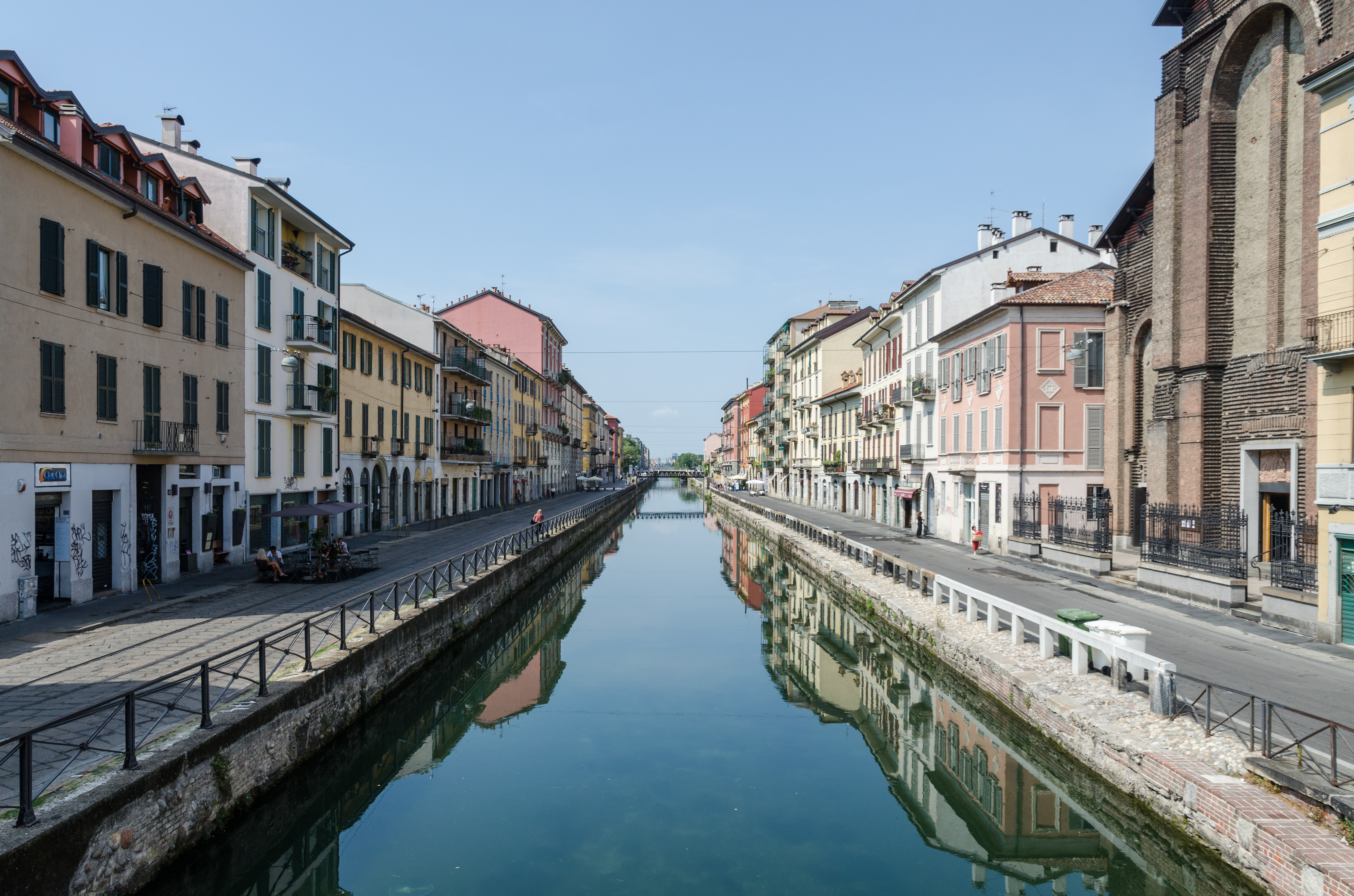 A West view of Naviglio Grande, Milano